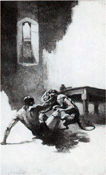 illustration of ulsio from The Chessmen of Mars